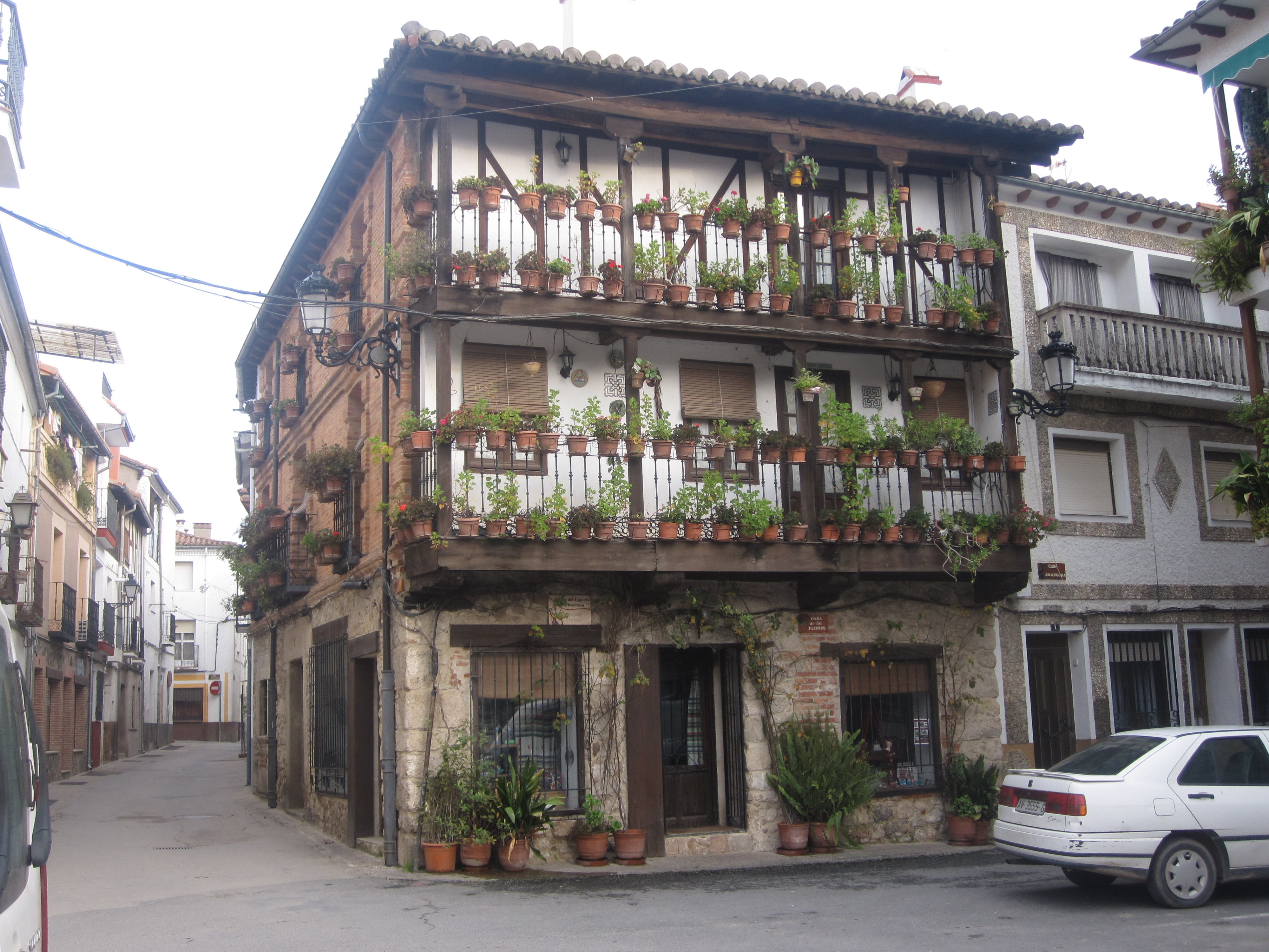 Flower's House in Candeleda (Ávila), Spain, showing local architecture.